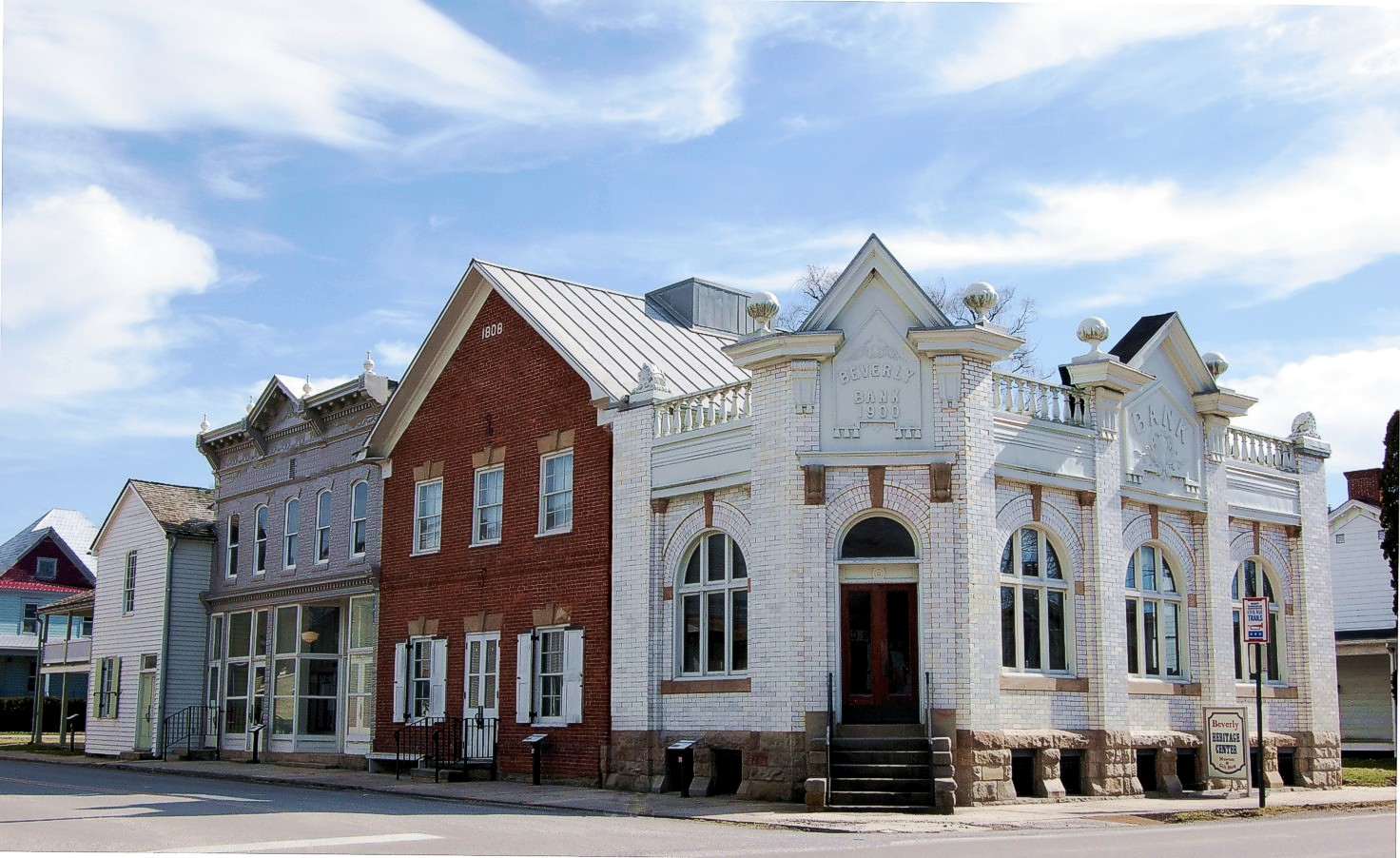 Four preserved historic buildings comprise the new Beverly Heritage Center.